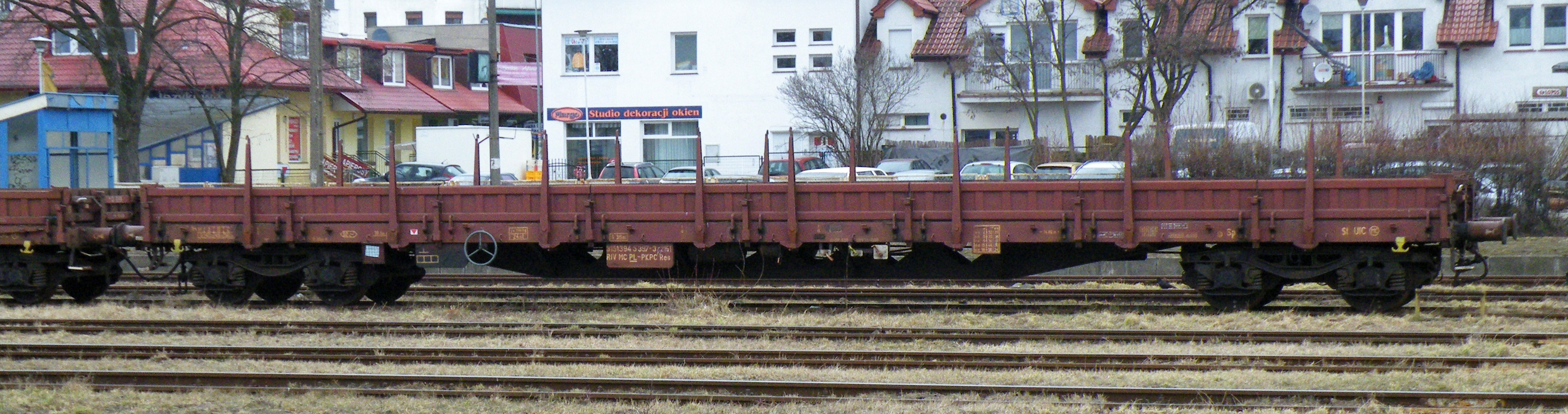 Flat railway wagon UIC Class Res (Vagonka Tatra Poprad C553Z) at Konin Station